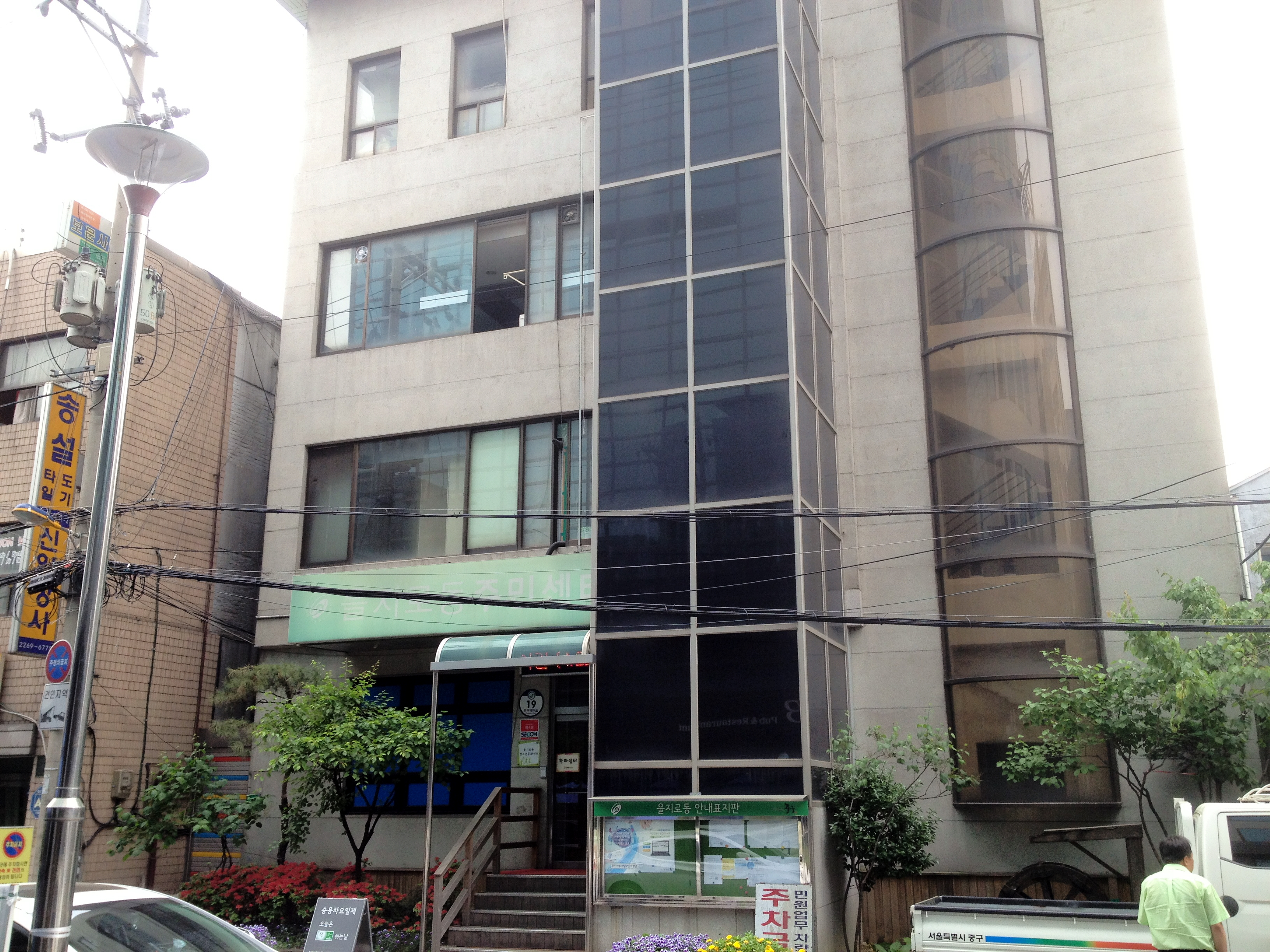 Uljiro-dong Comunity Service Center(Jung-gu)